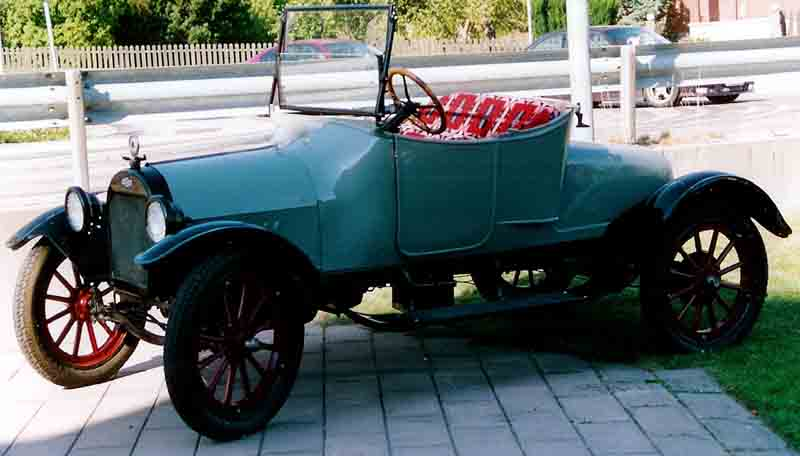 1920 Chevrolet Series 490 Roadster (The car eventually was made in 1919, but it is a 1920 model, as it has already a curved cowl.)